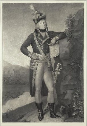 General Kilmaine